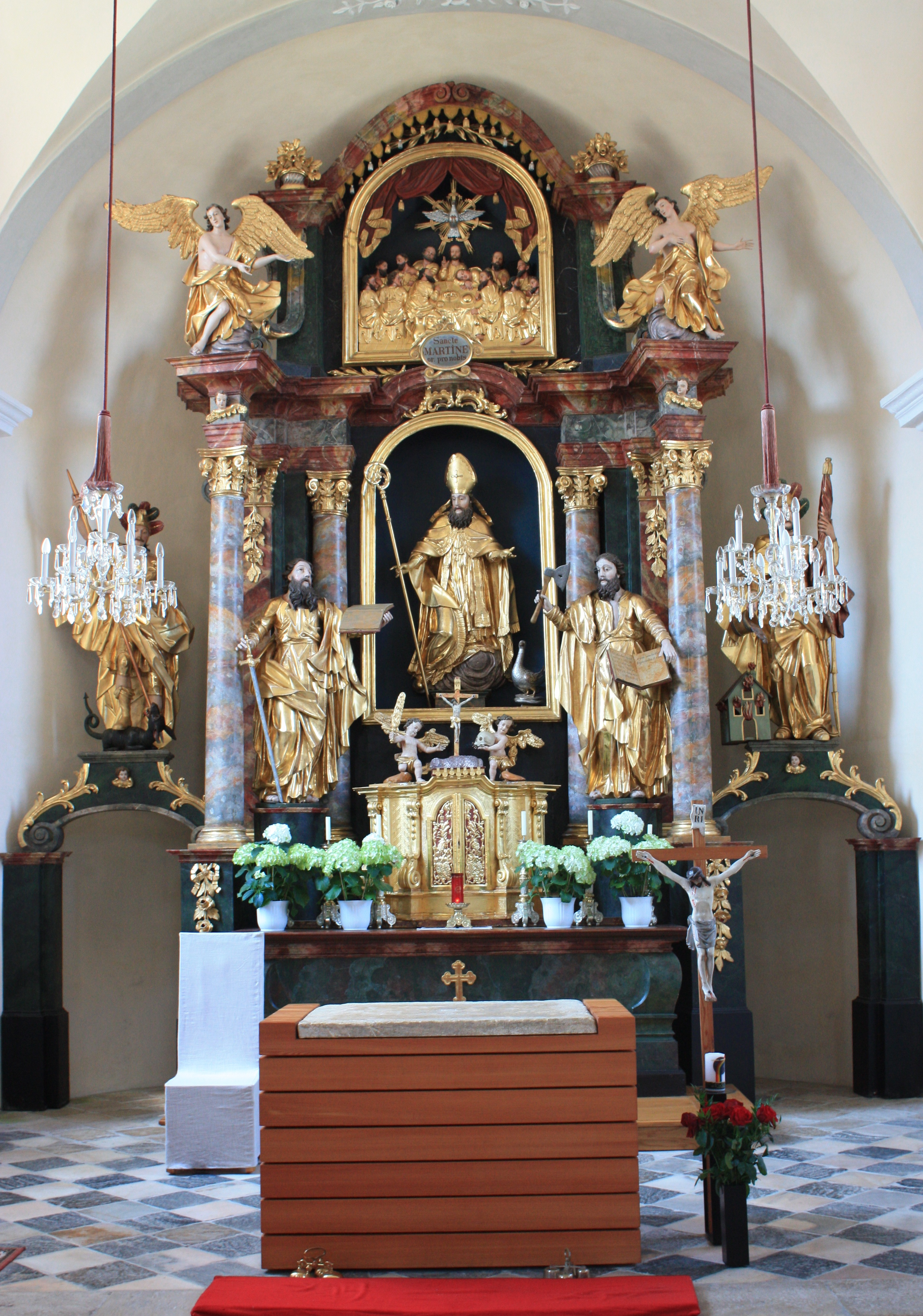 Main altar of the Parish church "Saint Martin" in Diex in the community of Diex